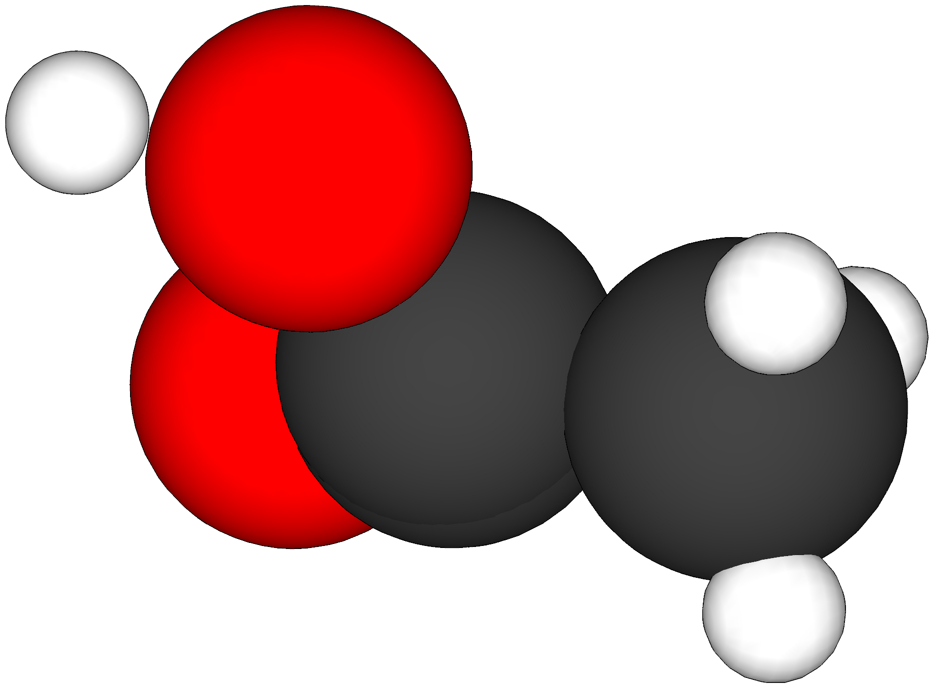 Acetic acid molecule model